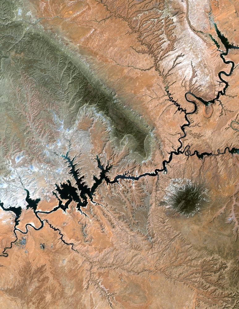 Lake Powell, Utah from NASA's Landsat Lake Powell in southern Utah stretches hundreds of miles from Lees Ferry in Arizona to the Orange Cliffs of southern Utah. At more than 400 feet deep, 150 miles long, and nearly 2,000 miles of shoreline, Lake Powell is the nation's second largest man-made lake, second only to Lake Mead in Nevada. It is at its lowest water level in over 30 years due to the ongoing drought in the western United States.